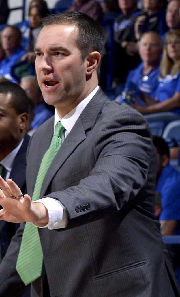 Jacksonville University men's basketball head coach Tony Jasick on Nov. 14, 2016 during Jacksonville's away game against Air Force at Clune Arena in Colorado Springs, Colo.